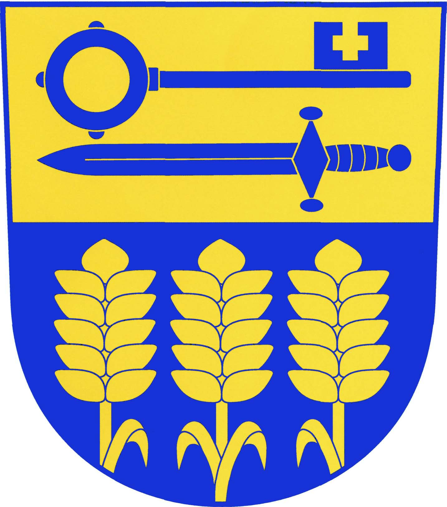 Coat of amrs of Nová Ves , District Prague East, Czech Republic